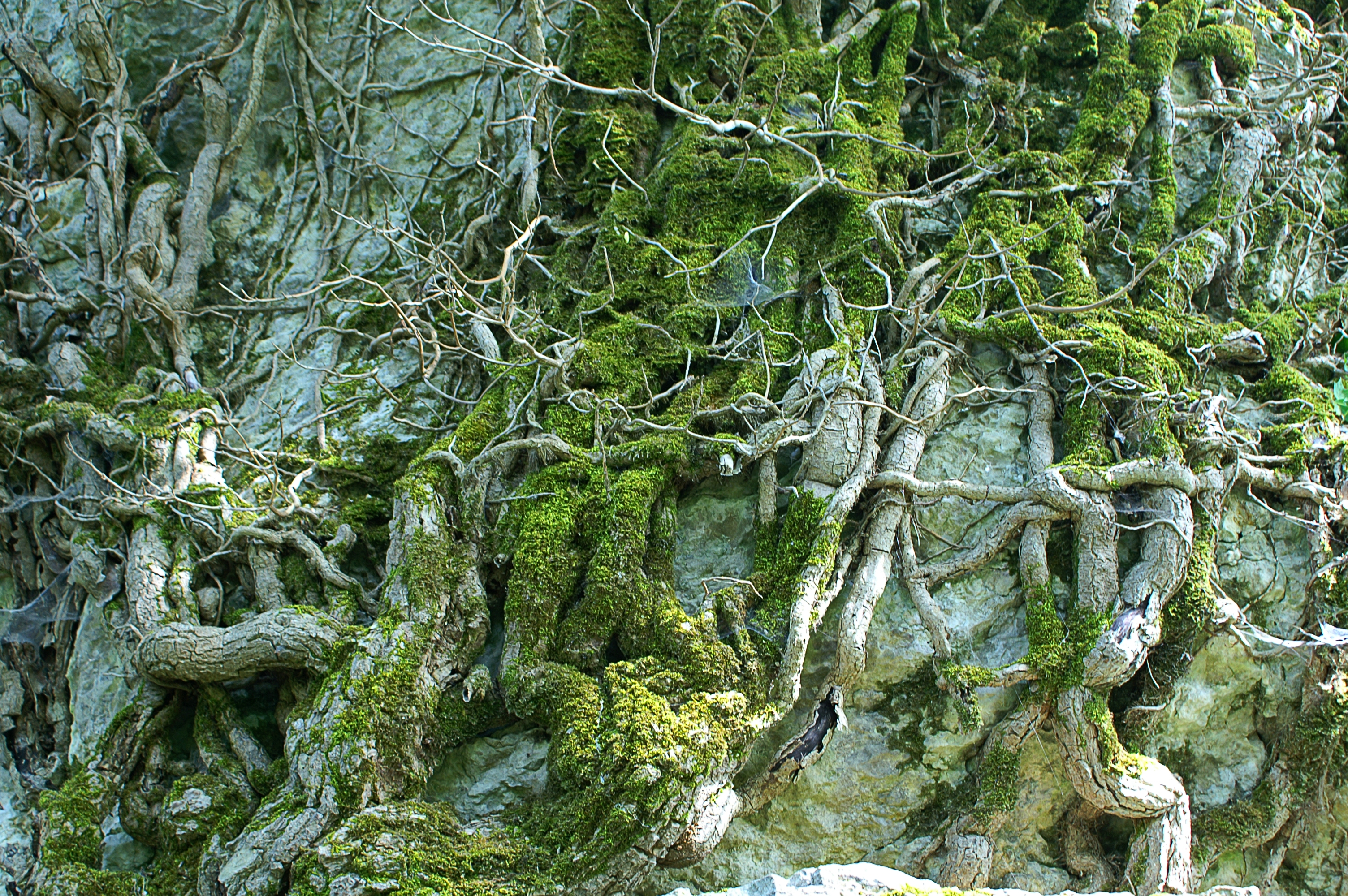 Climbing herbaceous or woody creepers with particularly flexible stems that use other plants such as trees but also other vertical supports.